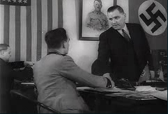 Office of the German American Bund: Bund leader Fritz Kuhn. Still from "March of Time" -outtakes - German-American Bund; office, meeting, Story RG-60.1003, Tape 924